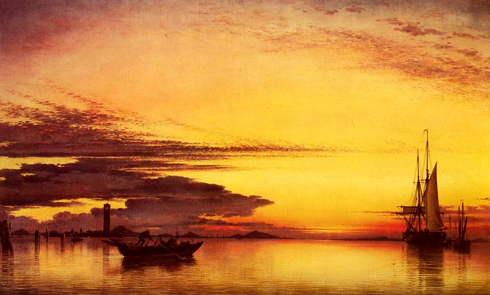 Sunset On The Lagune Of Venice - San Georgio-In-Alga And The Euganean Hills In The Distance